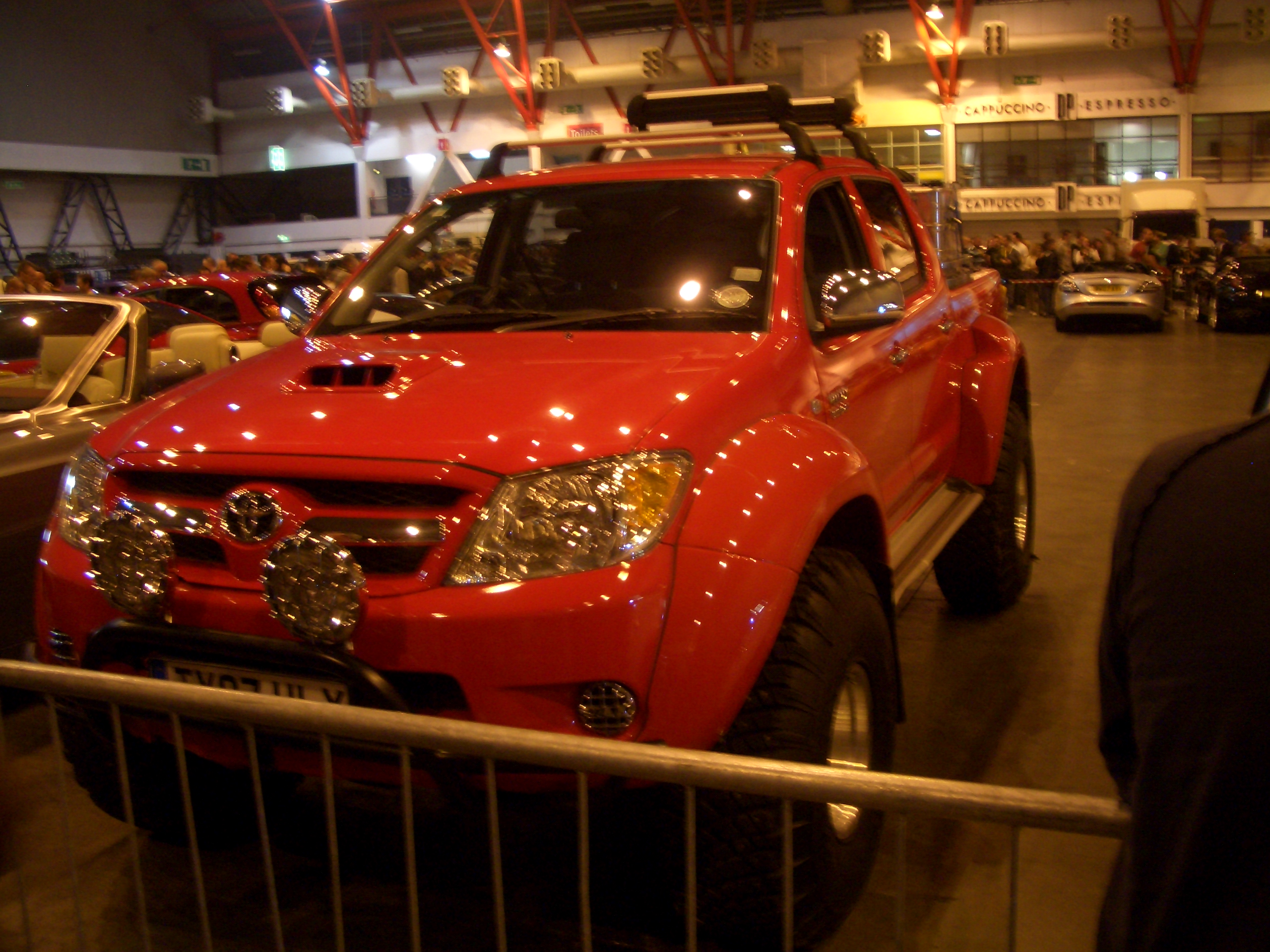 The Toyota Hilux pickup truck used on Top Gear's polar expedition, on display at the Earl's Court motor show in 2007.